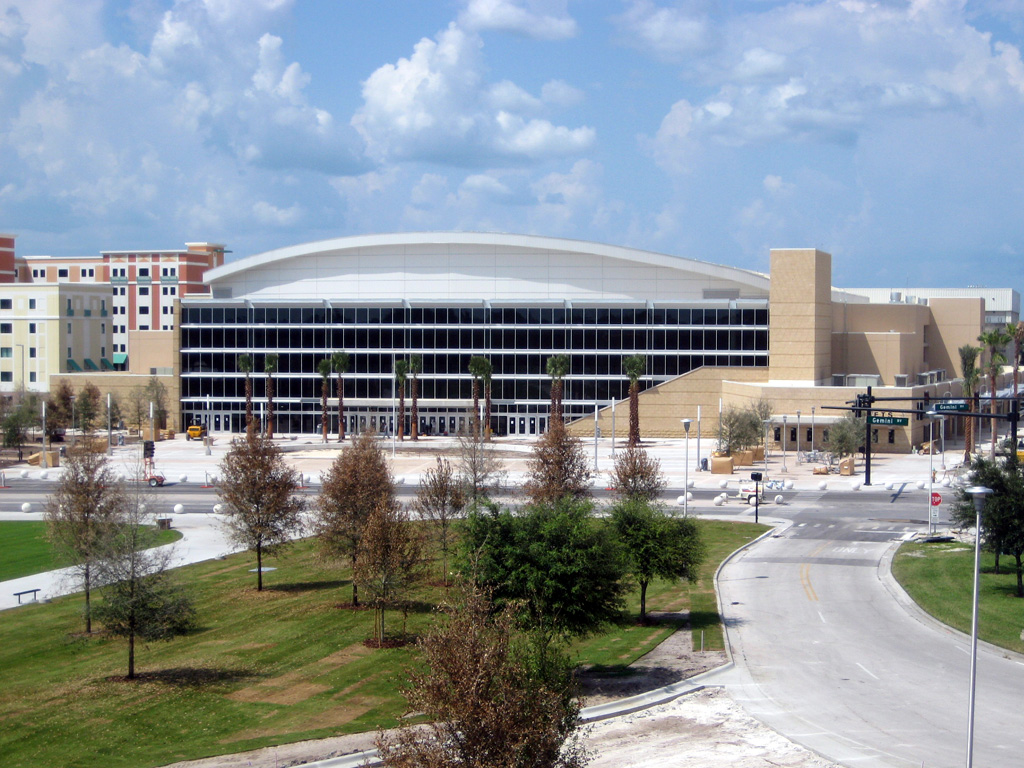 New UCF Arena / Knights Plaza, taken 08-12-2007 (nearing completion of construction). To learn more about UCF's athletics facilities, cick here: UCF Athletics Facilities Visit for more UCF construction photos and info.